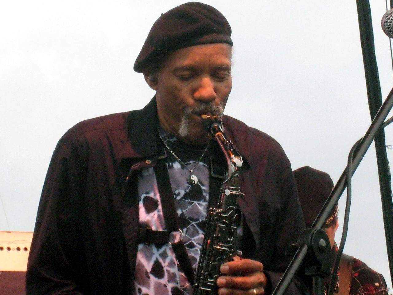 Charles Neville playing in Savannah 2007